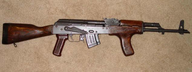 Romanian Guarda AIM reconstructed on a Nodakspud US-made receiver. Visible are the forward handgrip and the distinguishing black-painted stripe around the buttstock.